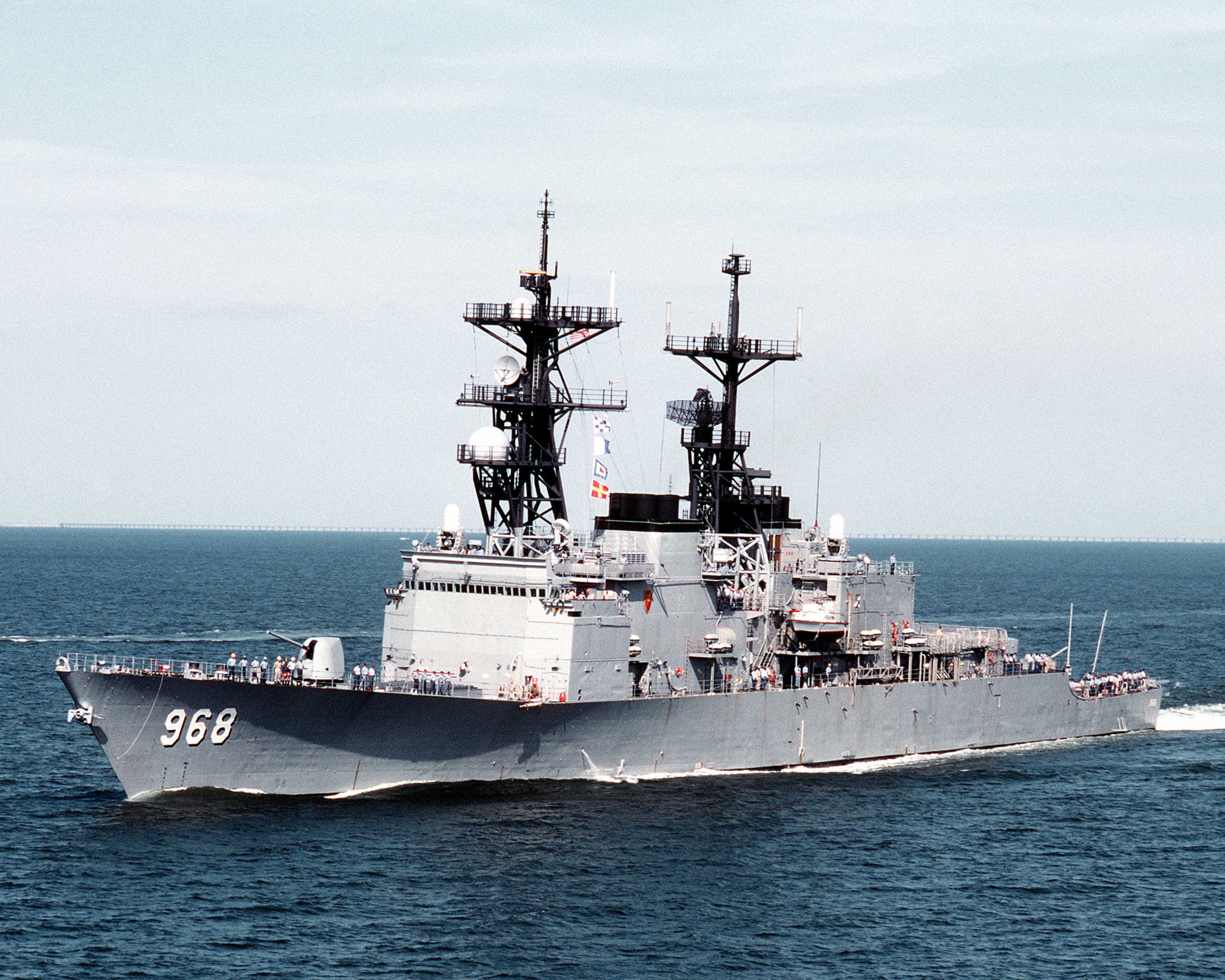 A port bow view of the destroyer USS ARTHUR W. RADFORD (DD-968) underway as it approaches Hampton Roads and Naval Station, Norfolk, VA, 8/2/1990.